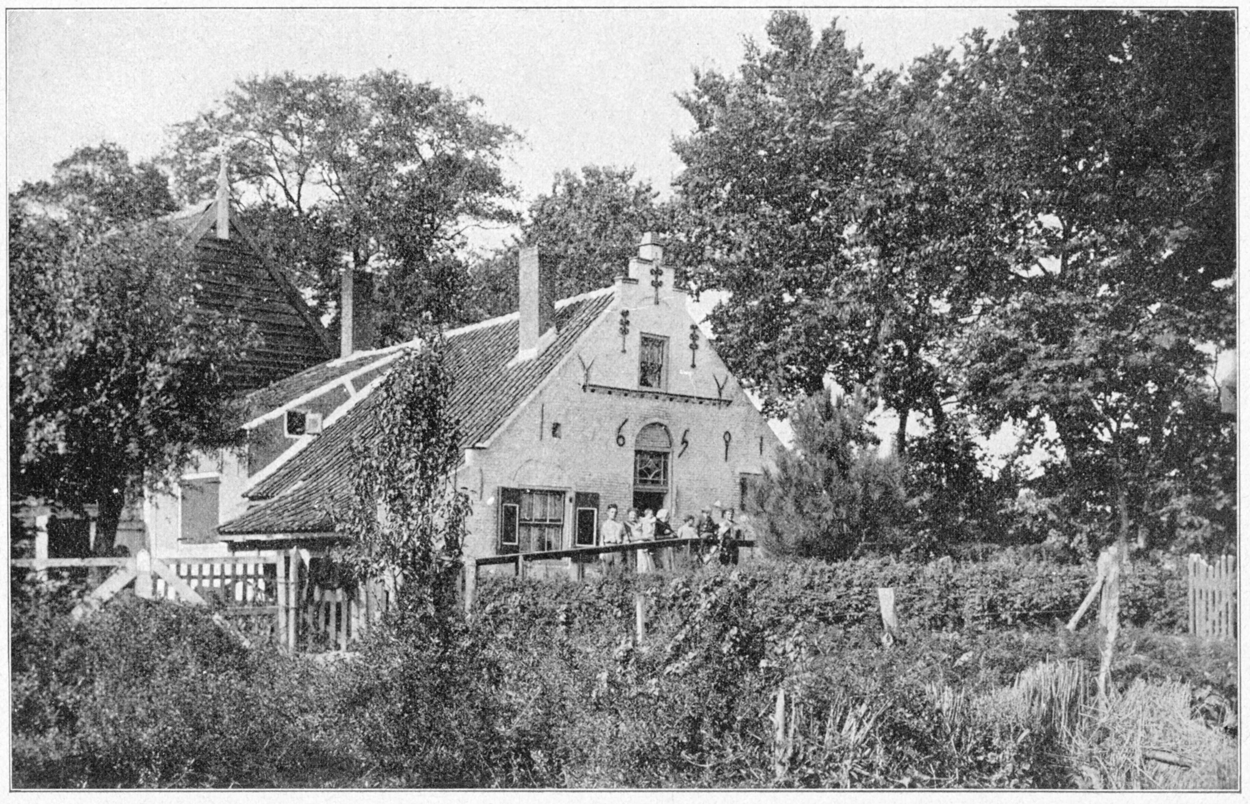 Old farm "Het Blauwe Huus" (The Blue House) in Ouddorp, The Netherlands, in 1910. The picture is scanned from a magazine "Op de hoogte, maandschrift voor de huiskamer" from 1910, but the picture itself might be taken in 1909. The photographer is "H.L. Vogel", and he was photographer and was publisher in Goedereede.